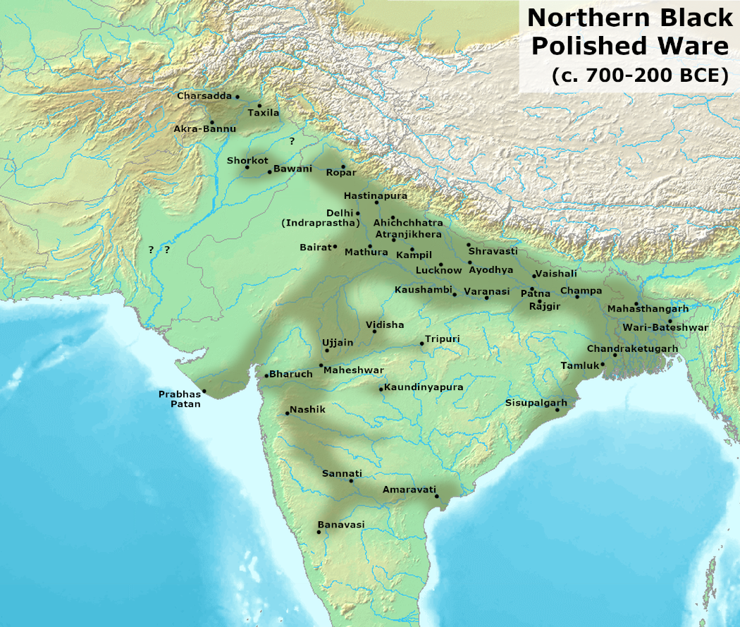 Sources: Basant, P. K. (2012), The City and the Country in Early India: A Study of Malwa, New Delhi: Primus Books, ISBN 9789380607153 Kenoyer, J. M. (1995), “Interaction Systems, Specialised Crafts and Culture Change: The Indus Valley Tradition and the Indo-Gangetic Tradition in South Asia”, in G. Erdosy, The Indo-Aryans of Ancient South Asia: Language, Material Culture, and Ethnicity, Berlin: Walter de Gruyter, ISBN 9783110144475 Singh, U. (2009), A History of Ancient and Medieval India: From the Stone Age to the 12th Century, Delhi: Longman, ISBN 978-81-317-1677-9 Witzel, M. (2010), Das alte Indien, München: Beck, ISBN 9783406597176 Background from Made with GIMP